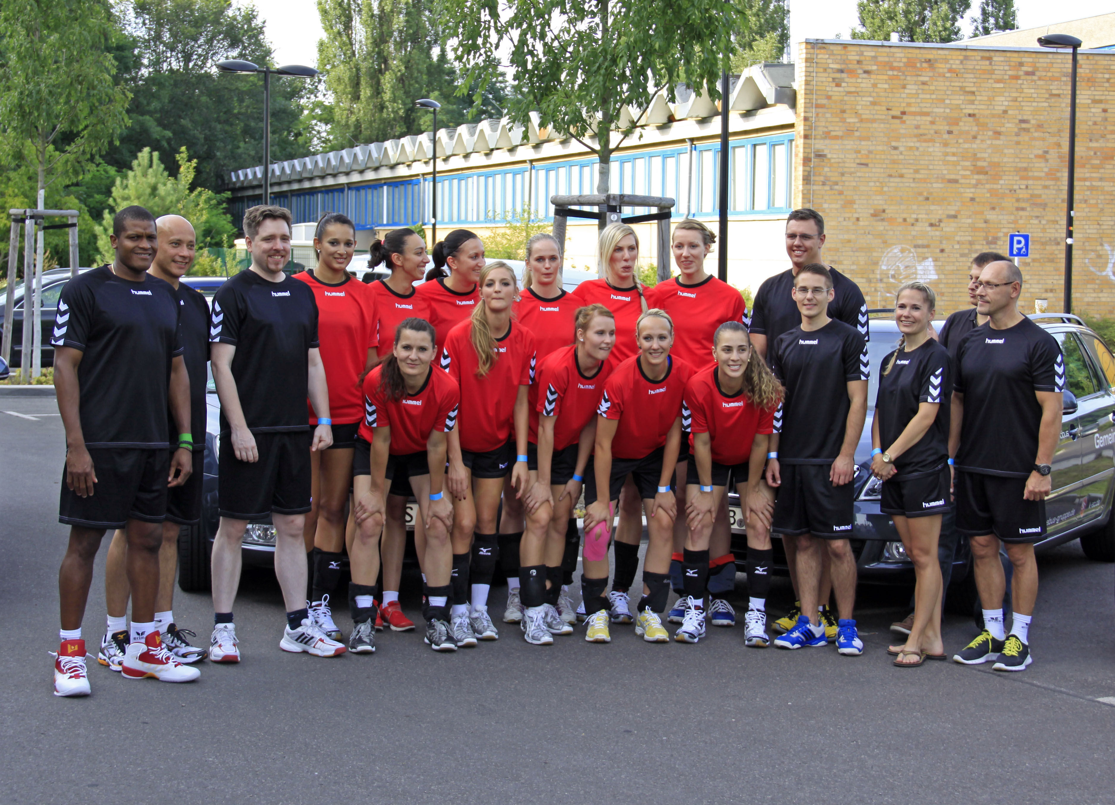 Köpenicker SC, Volleyball, Team Photo